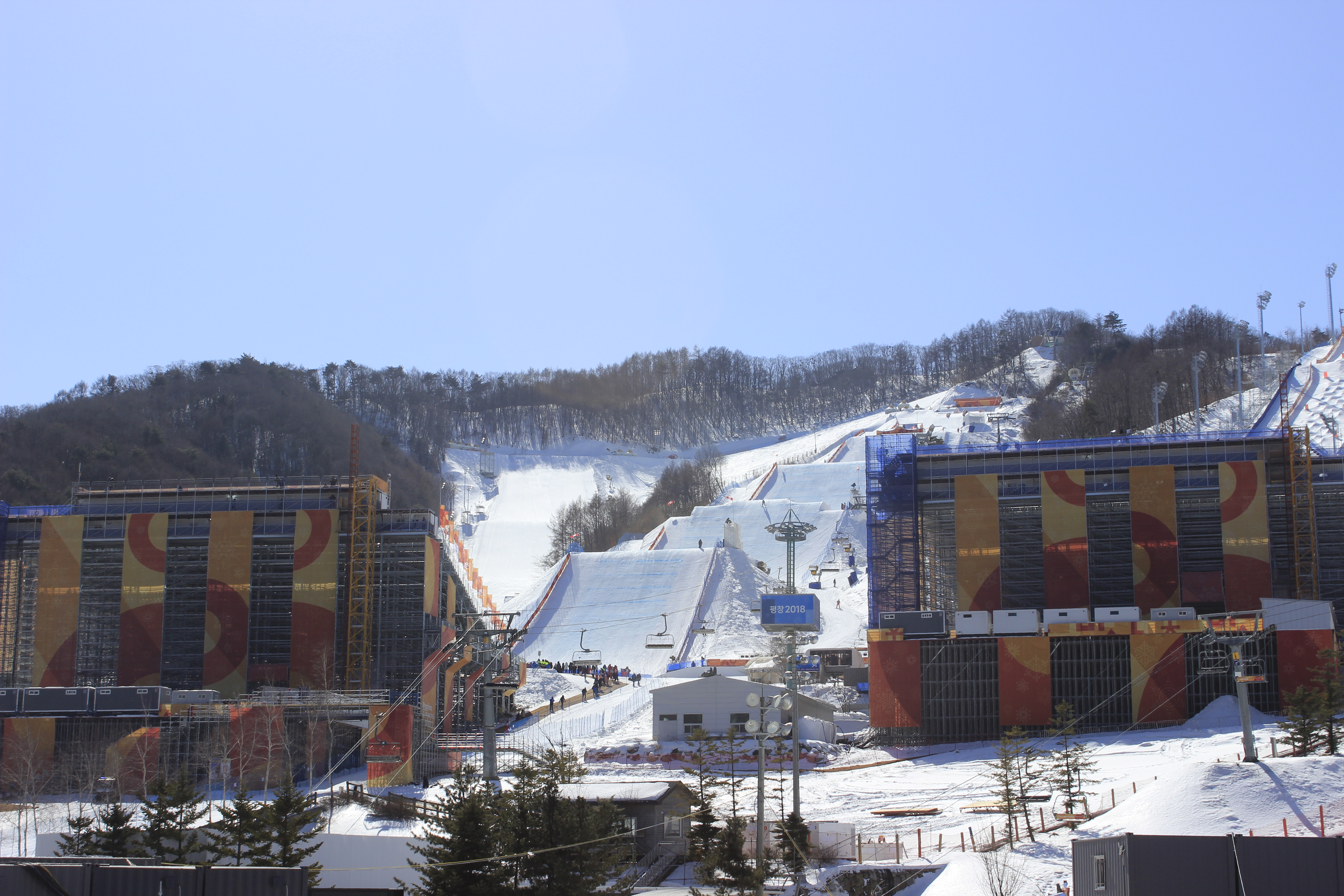 2018 Olympics Phoenix Pyeongchang slopestyle Area